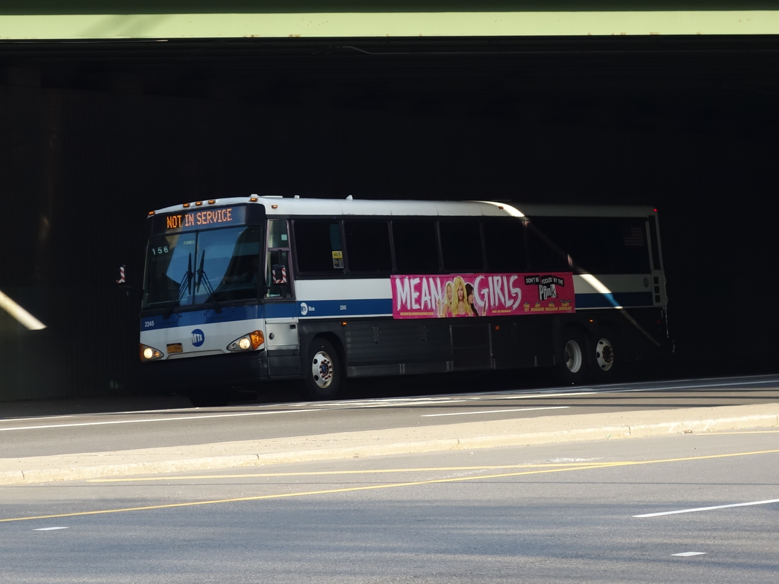 A MCI D4500CT express bus from the MTA's Spring Creek Depot traveling north on Woodhaven Boulevard underneath the Long Island Expressway in Elmhurst, Queens. The bus is about to turn onto the westbound LIE towards Manhattan.